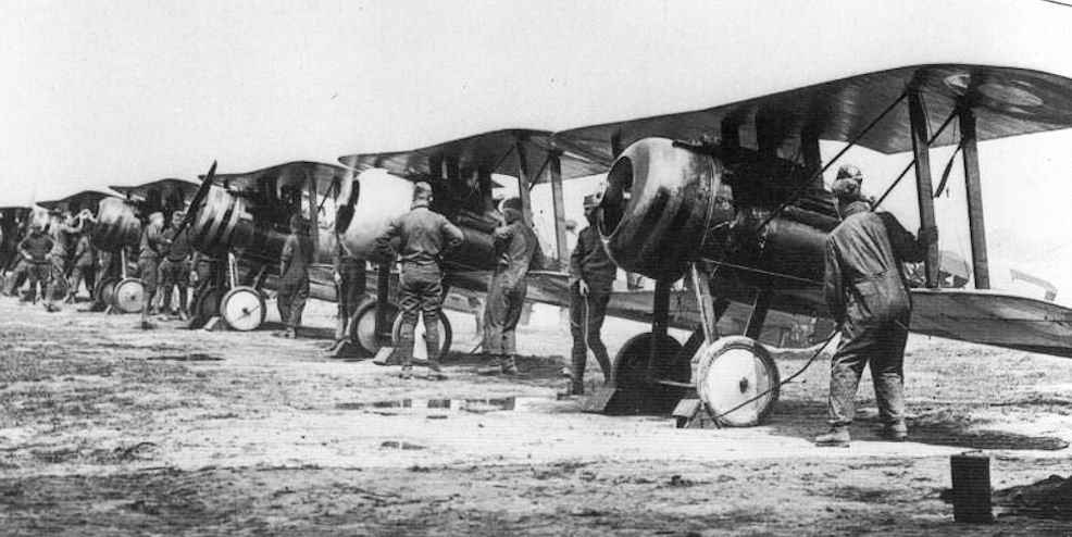 Formation of Nieuport 28 pursuit aircraft of the 95th Aero Squadron, Gengault Aerodrome, near Toul, France, June, 1918